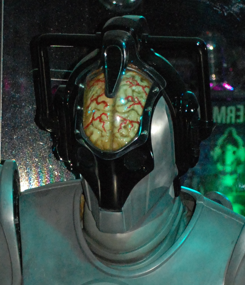 The Dr. Who exhibition at the Kelvingrove Art Gallery is well worth a visit. Of particular interest to me were the numerous examples of pre vis material on display. Lots of examples of storyboards and research materials for sets costumes and of course monsters. The show is great for kids but infants might find it a bit too scary. Particular highlights were the Cybermen and Dalek exhibits which were really interactive and very well done. Good to see these up close. Lots of ideas for halloween costumes from the monsters! Recommended, finishes on 4 Jan 2010. Doctor Who Experience